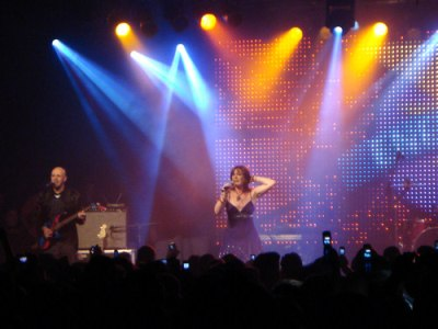 Nicki French performing live on tour